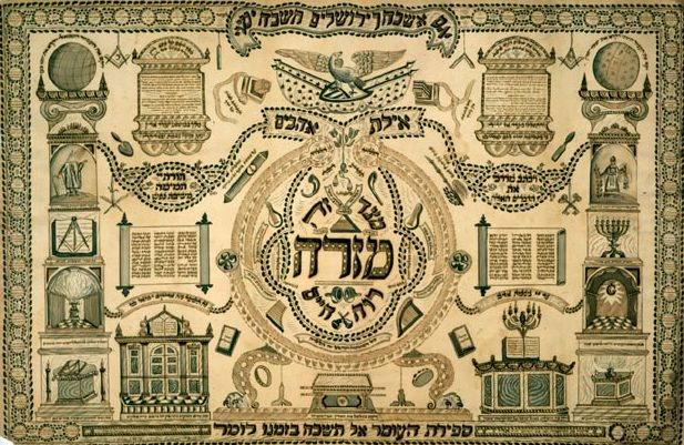 Mizrach Omer Calender, by Moses H. Henry, Cincinnati, 1850. Ink on paper. Courtesy of the HUC Skirball Cultural Center Museum Collection, Los Angeles. A mizrach serves as a symbolic orientation towards Jerusalem, the direction towards which prayer is oriented. This highly complex mizrah illustrates Moses Henry's patriotism with the motif of the American eagle astride a shield and bunting of the Stars and Stripes. The architectural images also make reference to the ideals of Freemasonry, as during the nineteenth century many Jews began to join Masonic orders. This mizrah has a second function as an omer calendar, as the forty-nine roundels in the border count the seven weeks between the holidays of Passover and Shavuot. The legend at the top reads "If I forget thee, O Jerusalem, let my right hand wither" (Psalms 137:5).